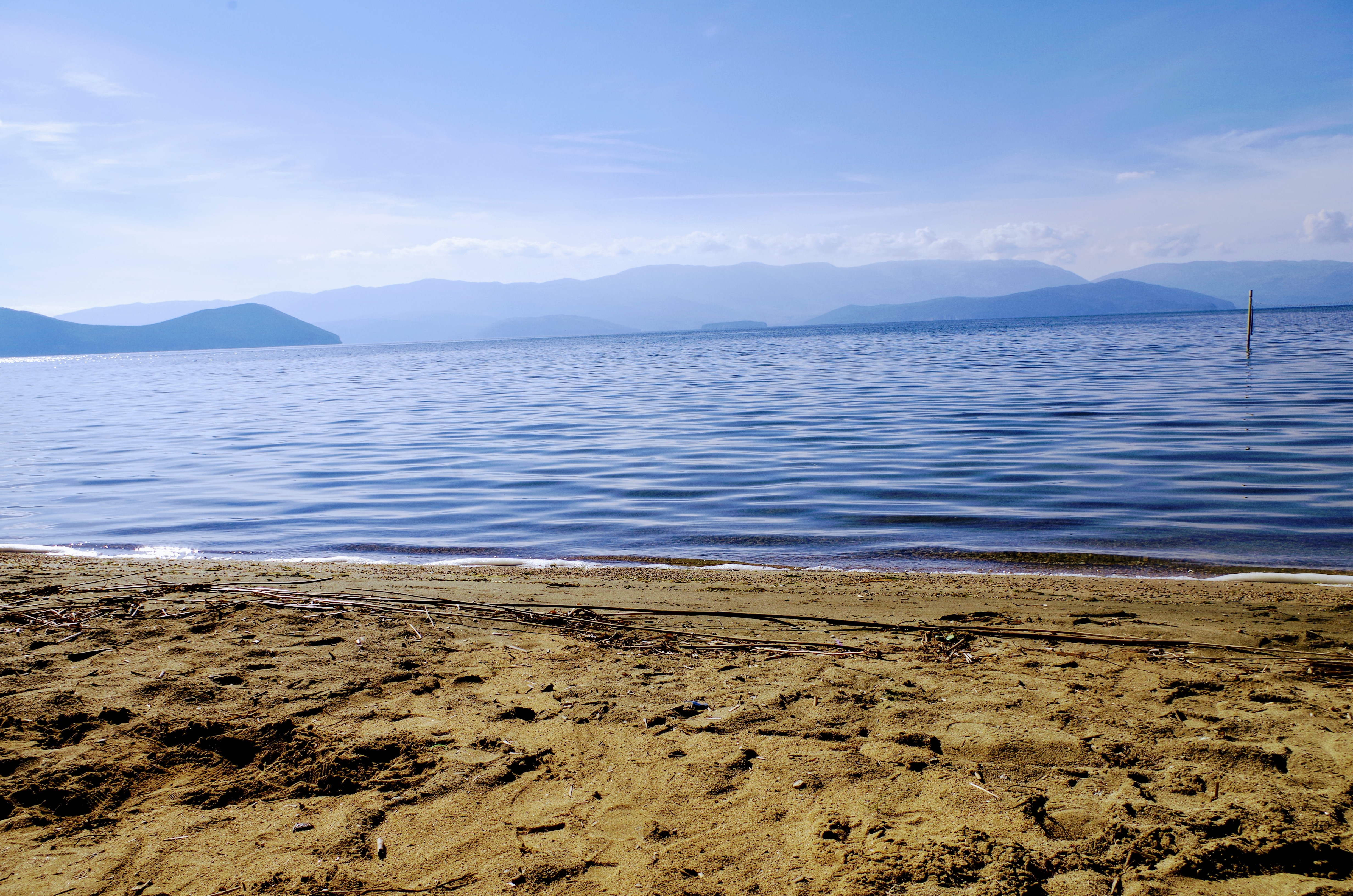 View of the beach in the village Dolno Dupeni